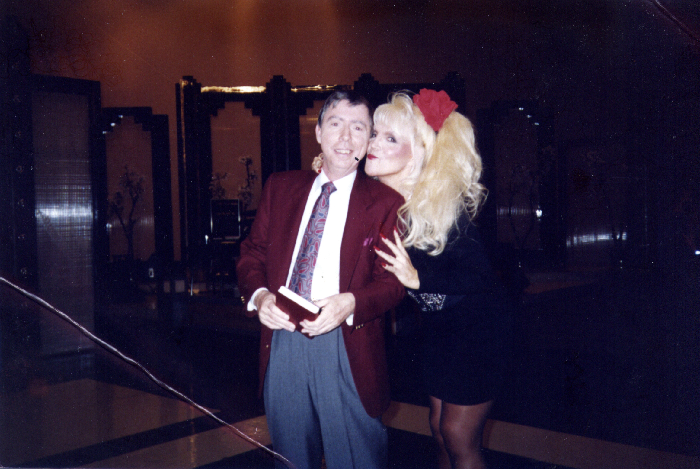 Gilles Latulippe and JoJo Savard in Quebec City in 1994.